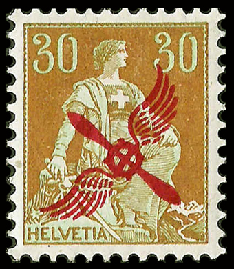 First airmail stamp of Switzerland, 30 centimes, 1919, scott#C1